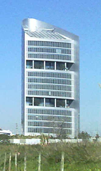 Torre de Monsanto at Miraflores, Oeiras, Portugal.